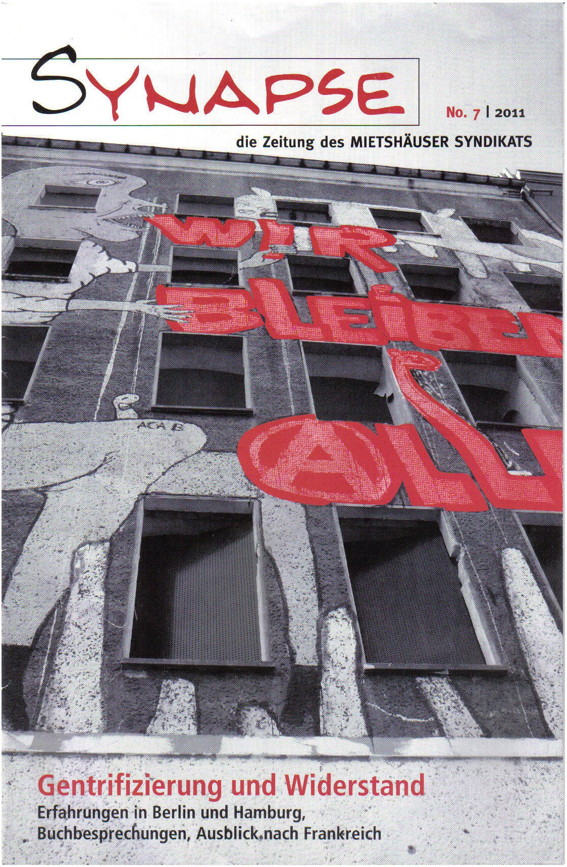 Synapse, Magazine of MIETSHÄUSER SYNDIKAT